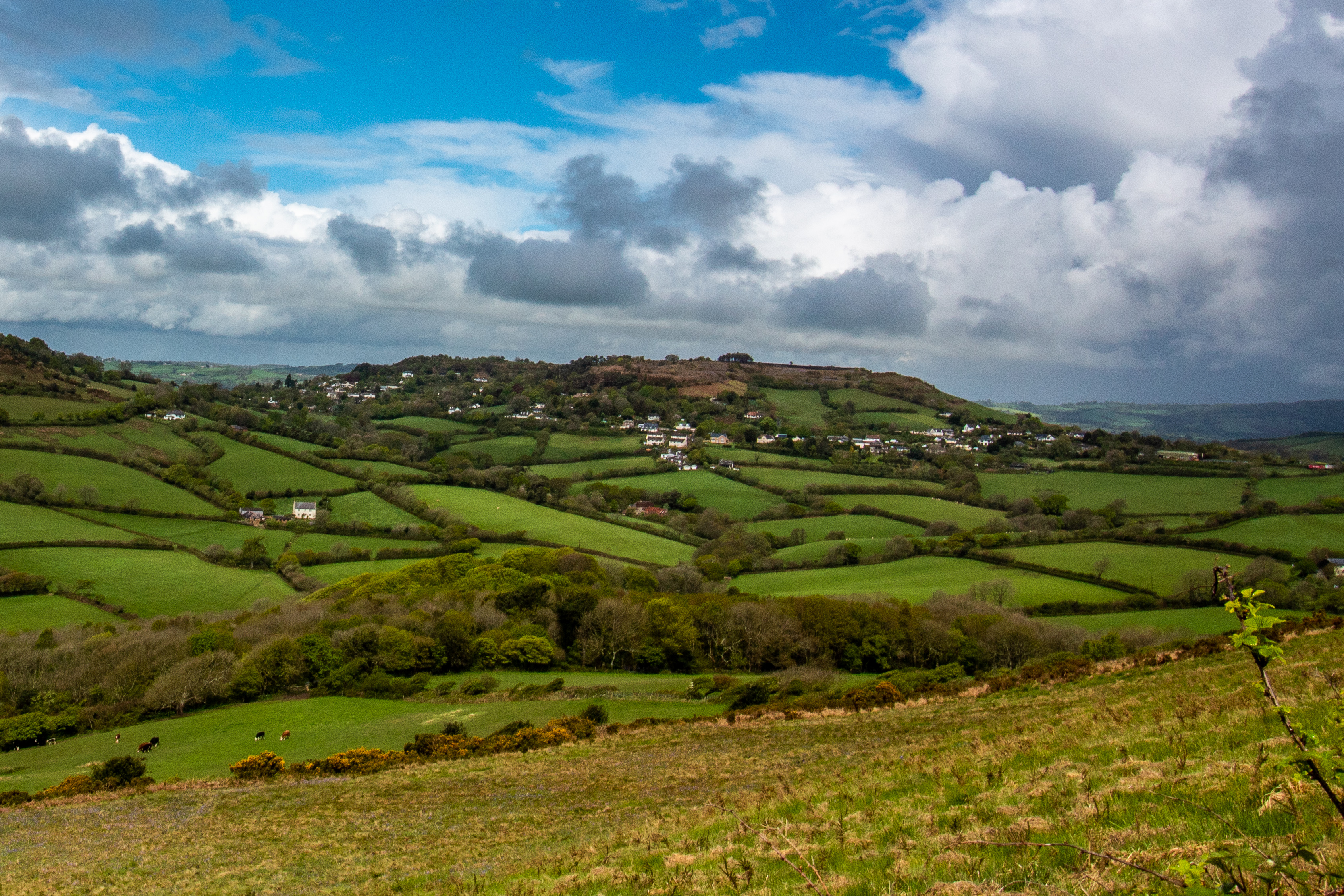 A picture of Hardown Hill in Dorset, North of Golden Cap